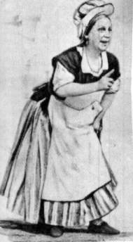 Vassily Geltzer in "La Fille Mal Gardee"